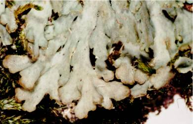 Anaptychia palmulata (lobes)